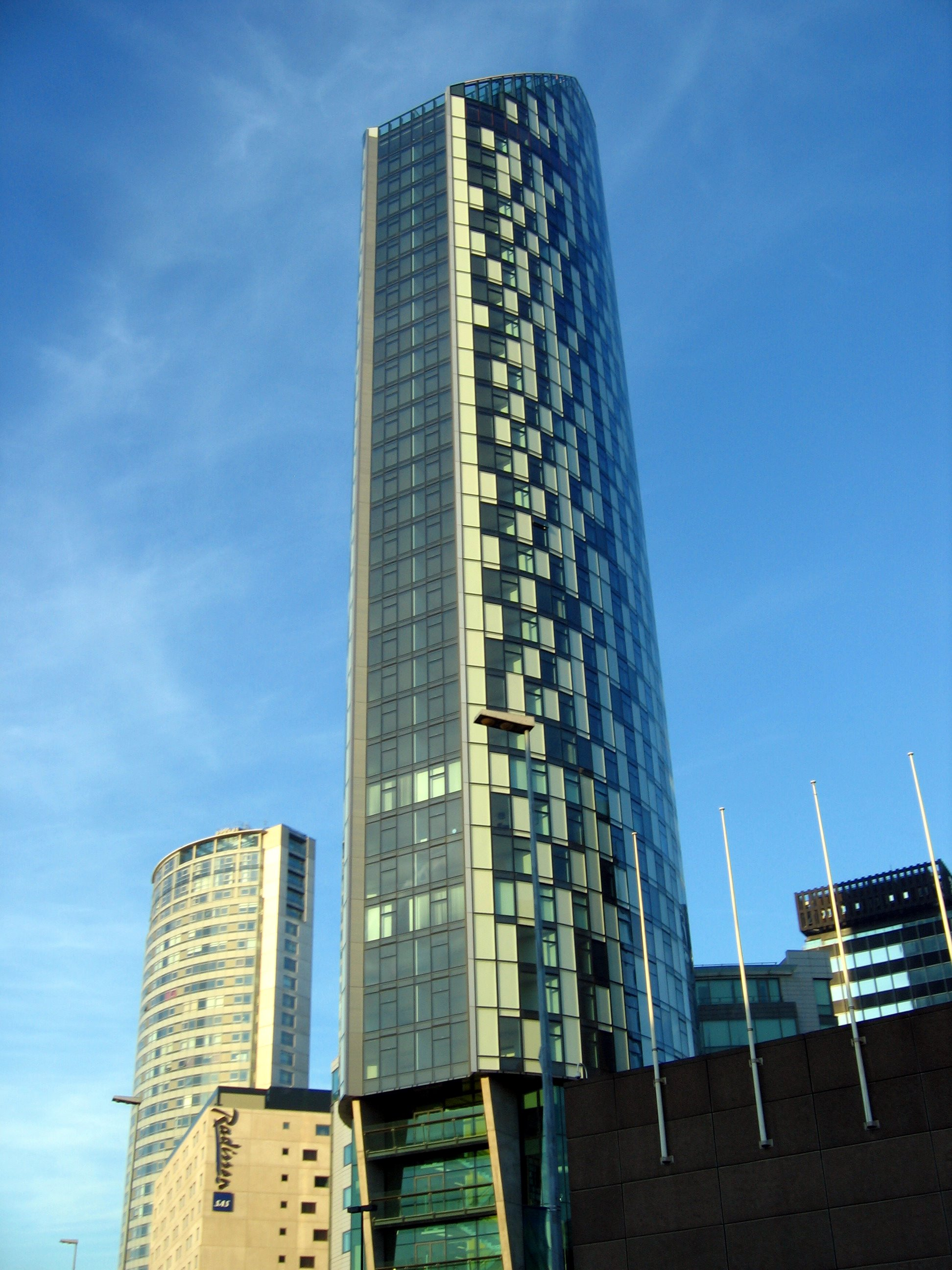 West Tower, Liverpool, England, UK